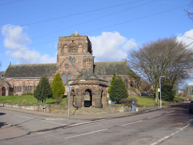 St George's Church, Thornton Hough